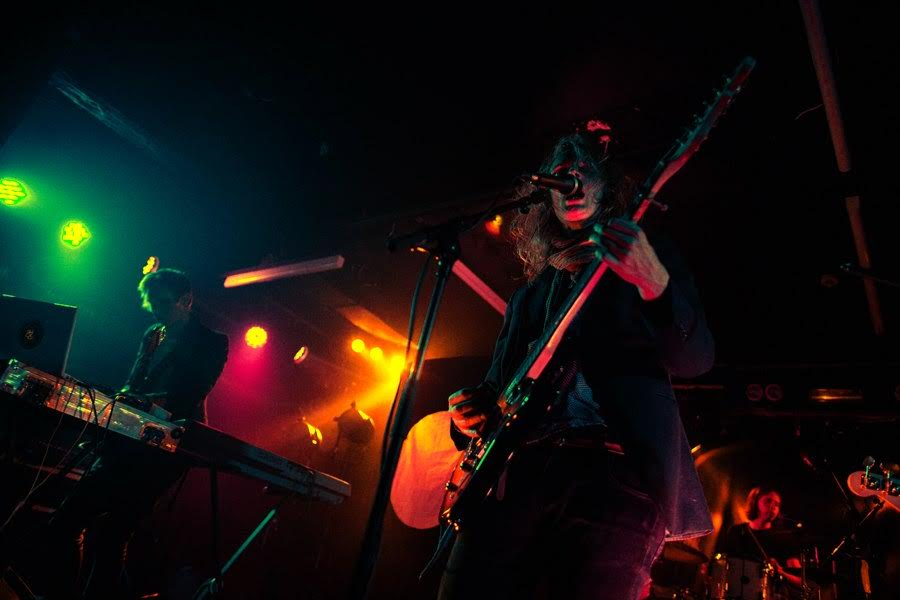 neovlutakko